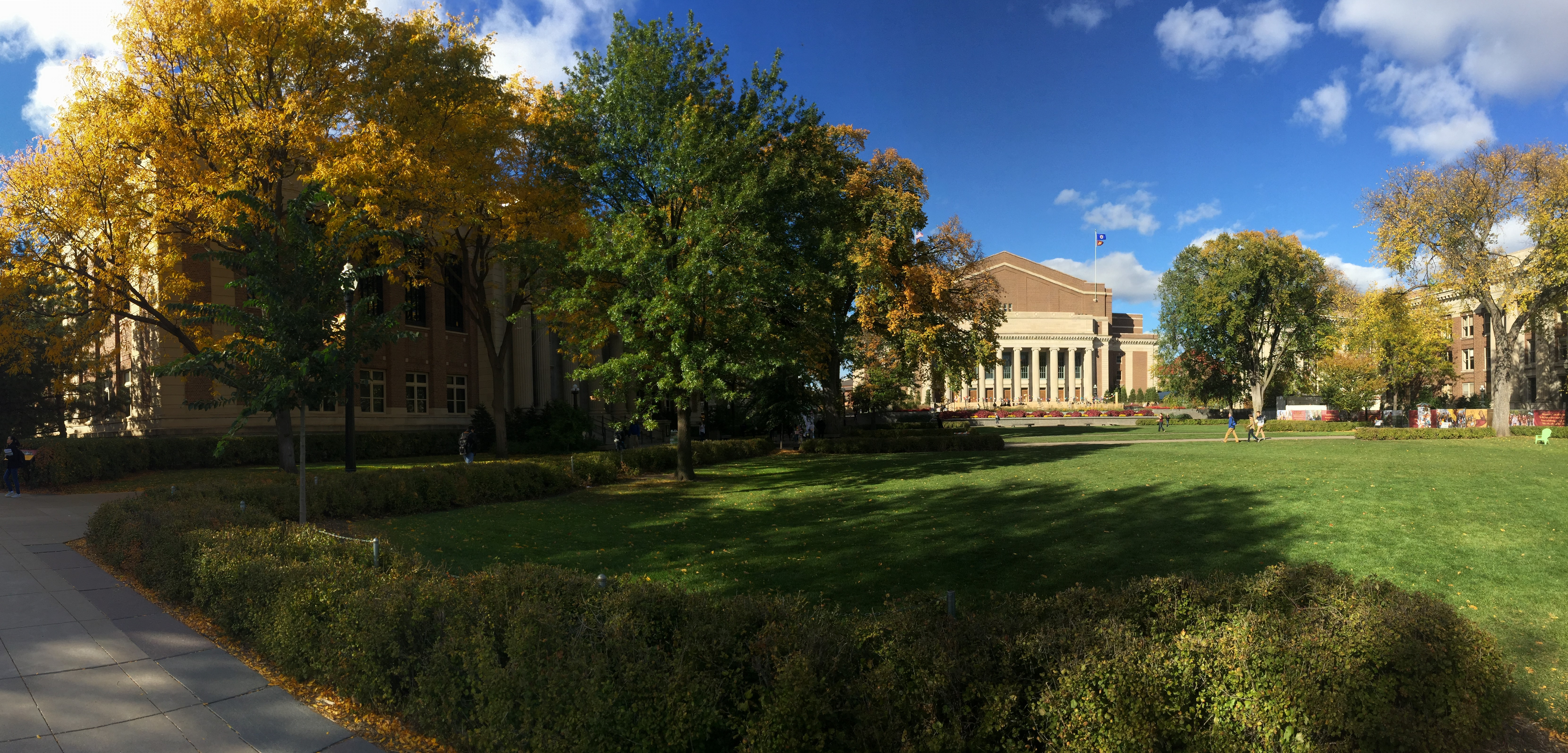 Northrop Mall at the University of Minnesota campus in Minneapolis, Minnesota, with Walter Library on the left and Cyrus Northrop Auditorium on the right.